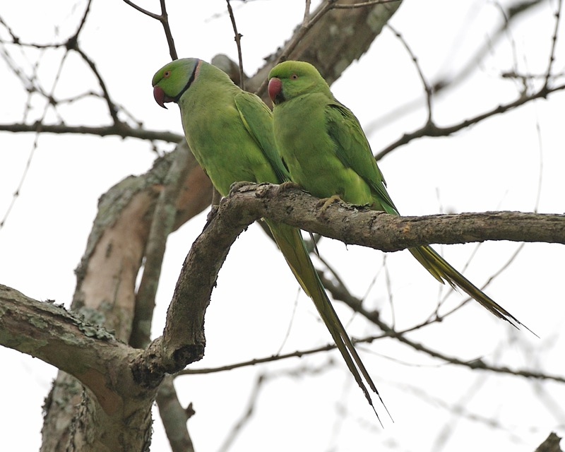 Rose-ringed Parakeet (Psittacula krameri). A pair in Kaziranga, Assam, India on 15 April 2008. Male on left and female on right.